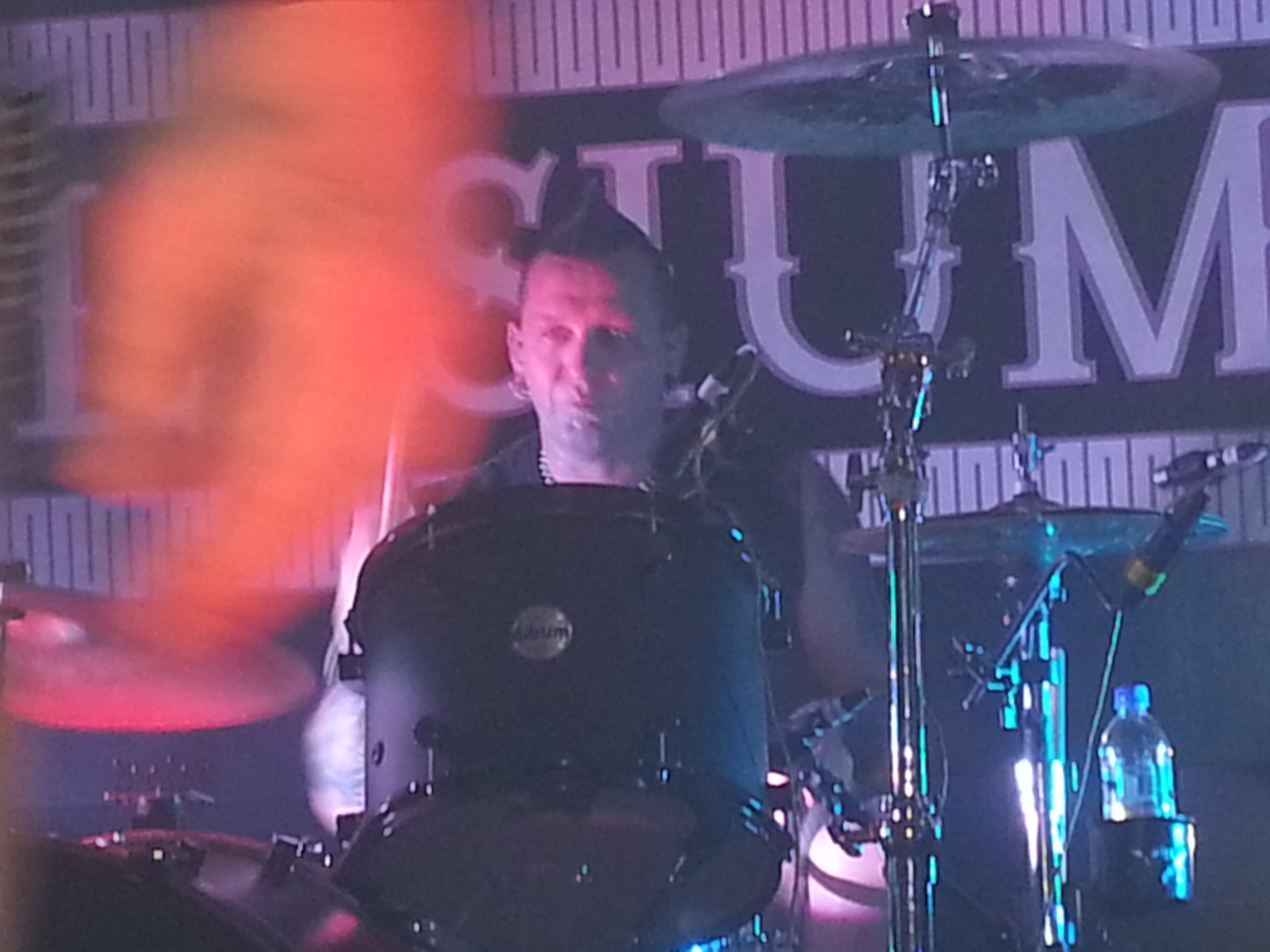 Andy Selway performing with industrial rock band KMFDM